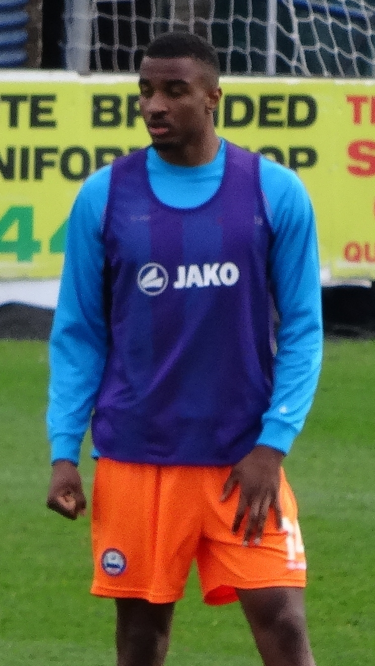 Christian Mbulu warming up for Braintree Town against York City at Bootham Crescent, York on 1 April 2017